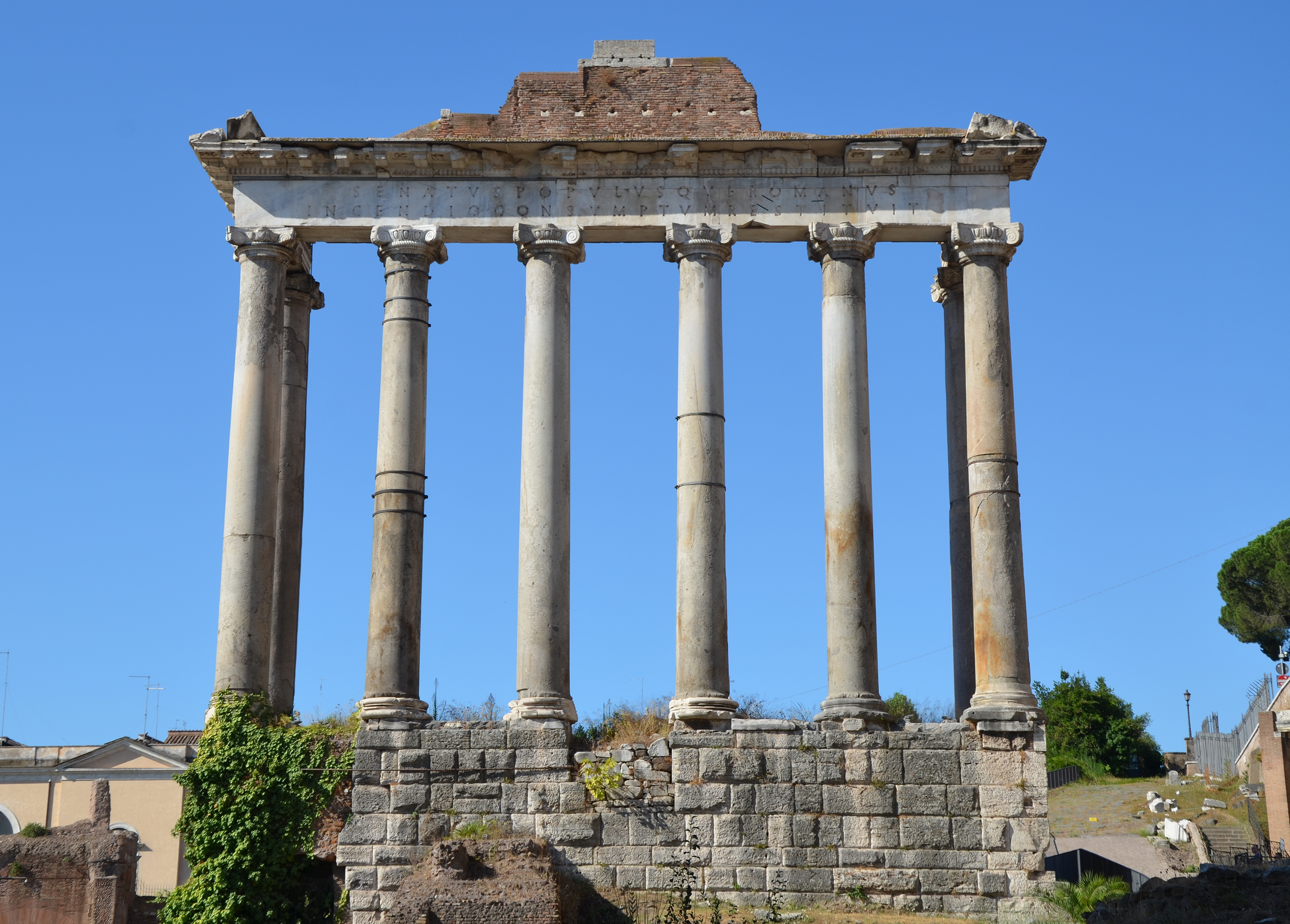 Temple of Saturn, Roman Forum, Rome